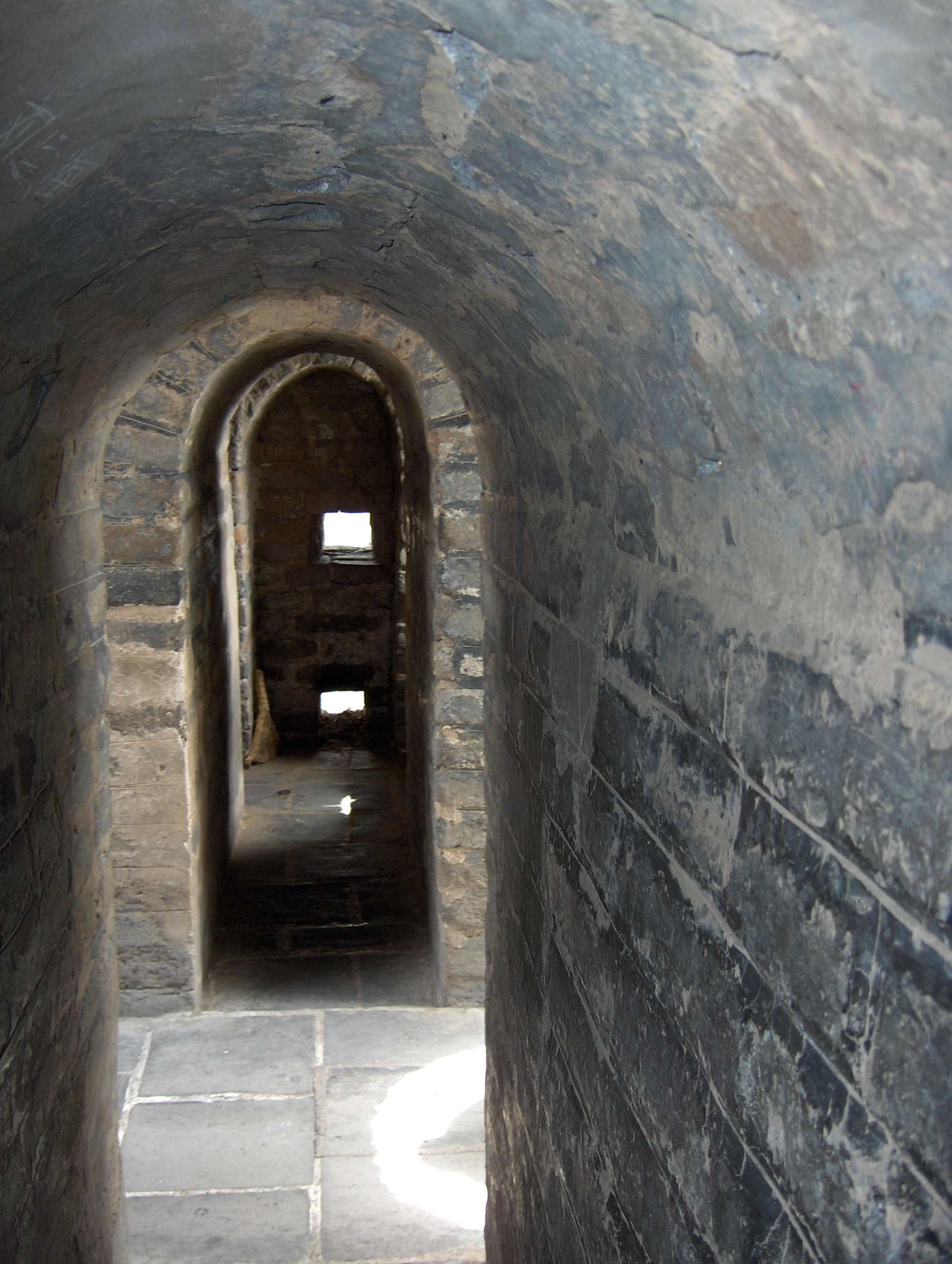 Inside shot of minor Tower on the Great Wall